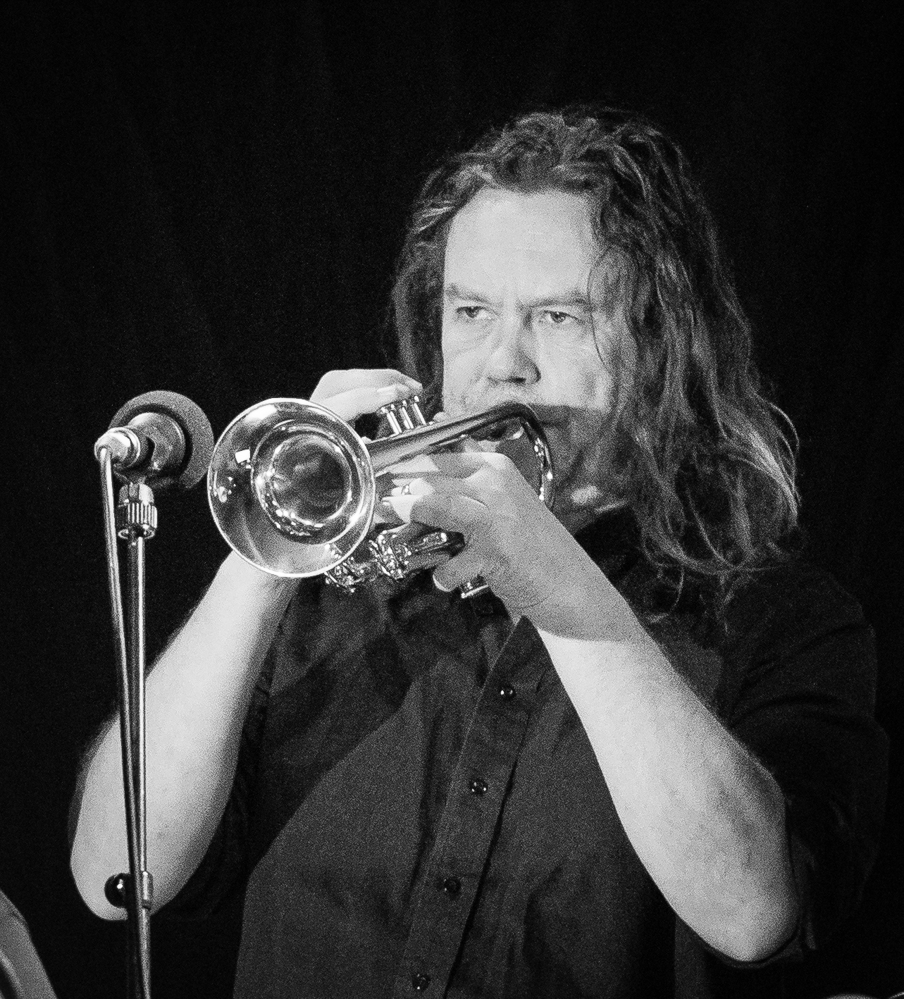 Frank Brodahl with Torun Eriksen and Ensemble Denada at Thon Hotel Jølster. The concert was part of Jazz på Jølst and took place on 12. October 2018 in Jølster. This was the opening concert of the festival. Lineup: Torun Eriksen (vocal) Erlend Skomsvoll (conductor) Frank Brodahl (trumpet and piccolo trumpet) Marius Haltli (trumpet and cornet) Anders Eriksson (trumpet and flugelhorn) Even Kruse Skatrud (trombone) Nils Andreas Granseth (trombone) Martin Myhre Olsen (alto saxophone) Børge-Are Halvorsen (alto saxophone and flute) Atle Nymo (tenor saxophone and bass clarinet) Tina Lægreid Olsen (baritone saxophone) Olga Konkova (piano) Jens Thoresen (guitar) Per Mathisen (bass guitar) Håkon Mjåset Johansen (drums)